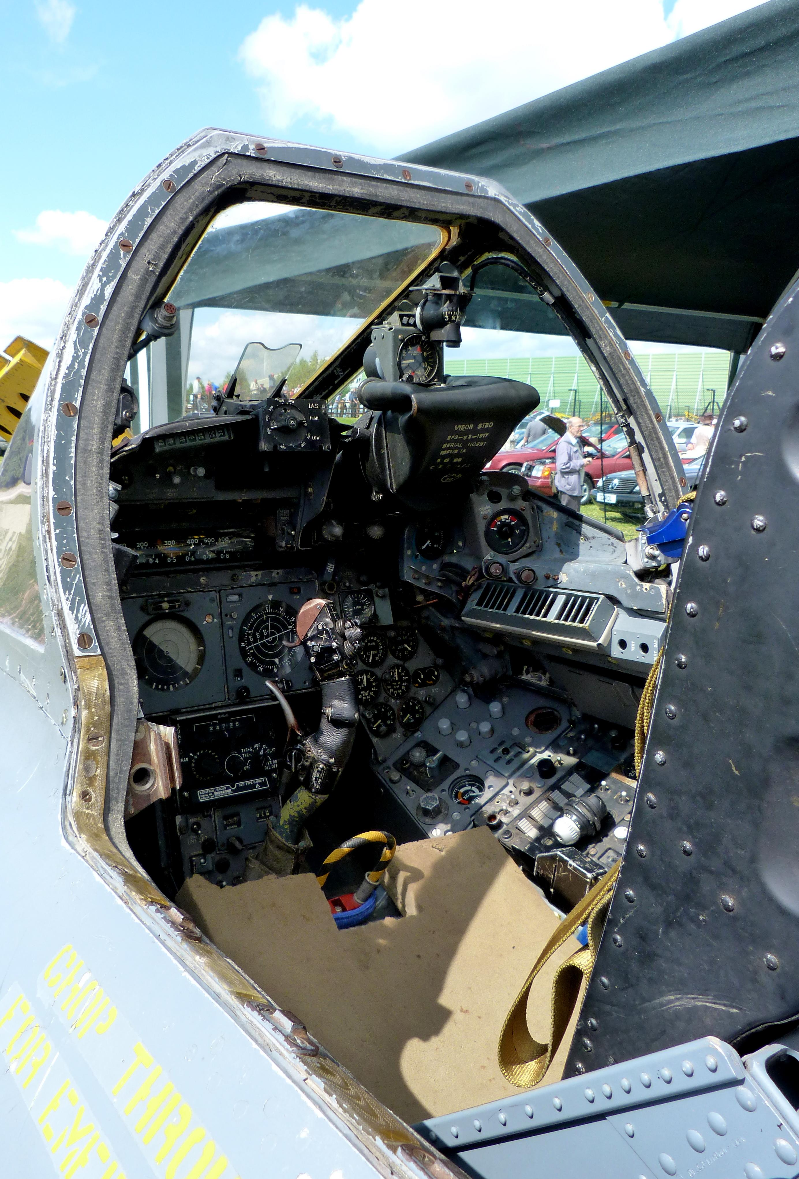 XS922 Lightning F.6 RAF cockpit section.